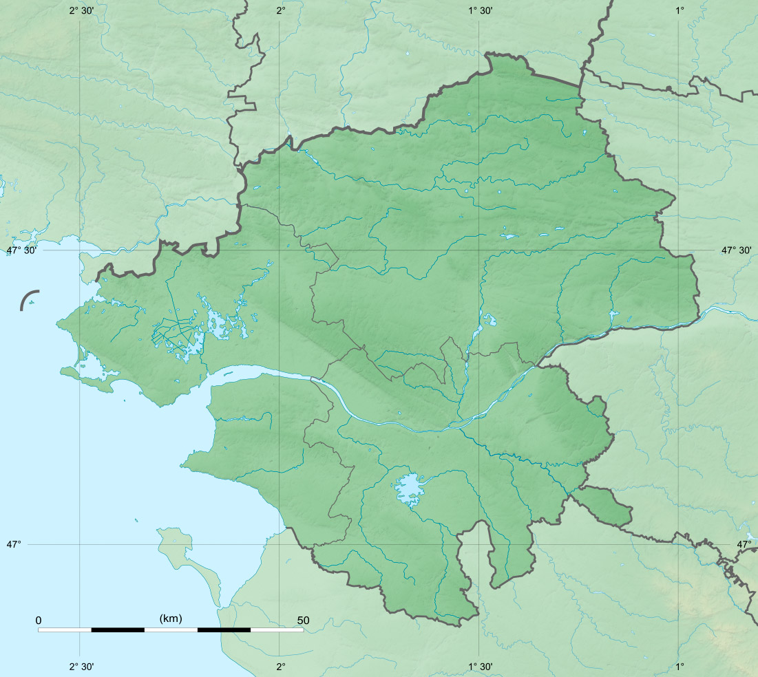 Blank physical map of the department of Loire-Atlantique, France, for geo-location purpose, with distinct boundaries for regions, departments and arrondissements as in January 2018.